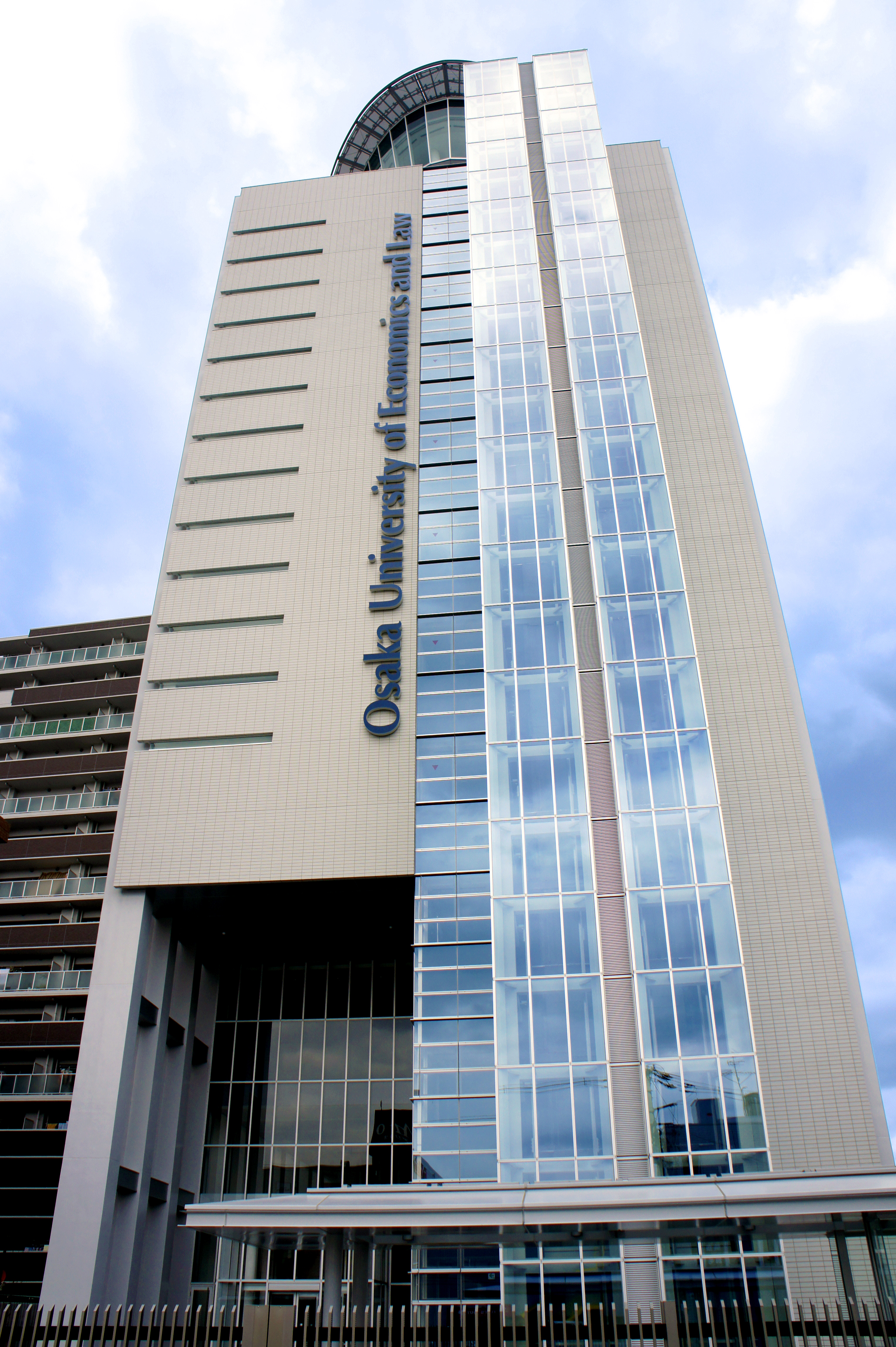 Osaka University of Economics and Law YAO CAMPUS(OVAL), 2-10-45 Kitamotocho Yao-City Osaka Japan.